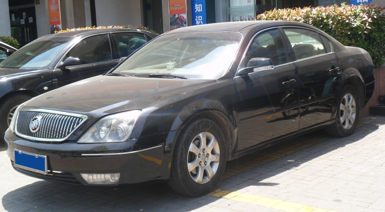 Buick LaCrosse CN photographed in Shanghai, China.